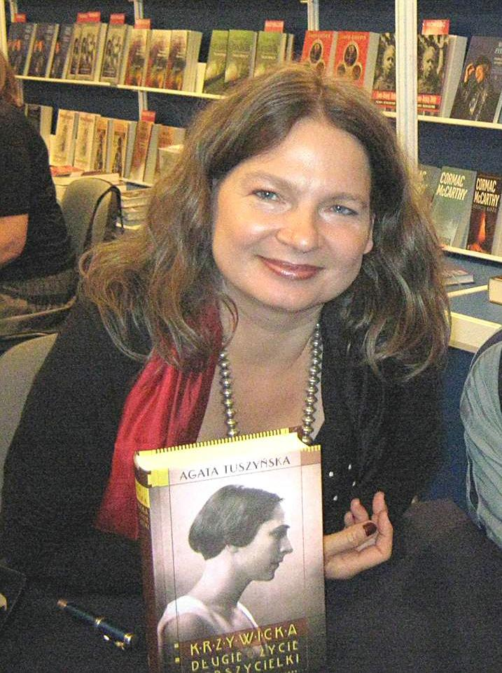 Polish poets and writers Agata Tuszyńska. Book: Długie życie gorszycielki. Losy i świat Ireny Krzywickiej. Iskry, Warschau, ISBN 83-207-1617-9